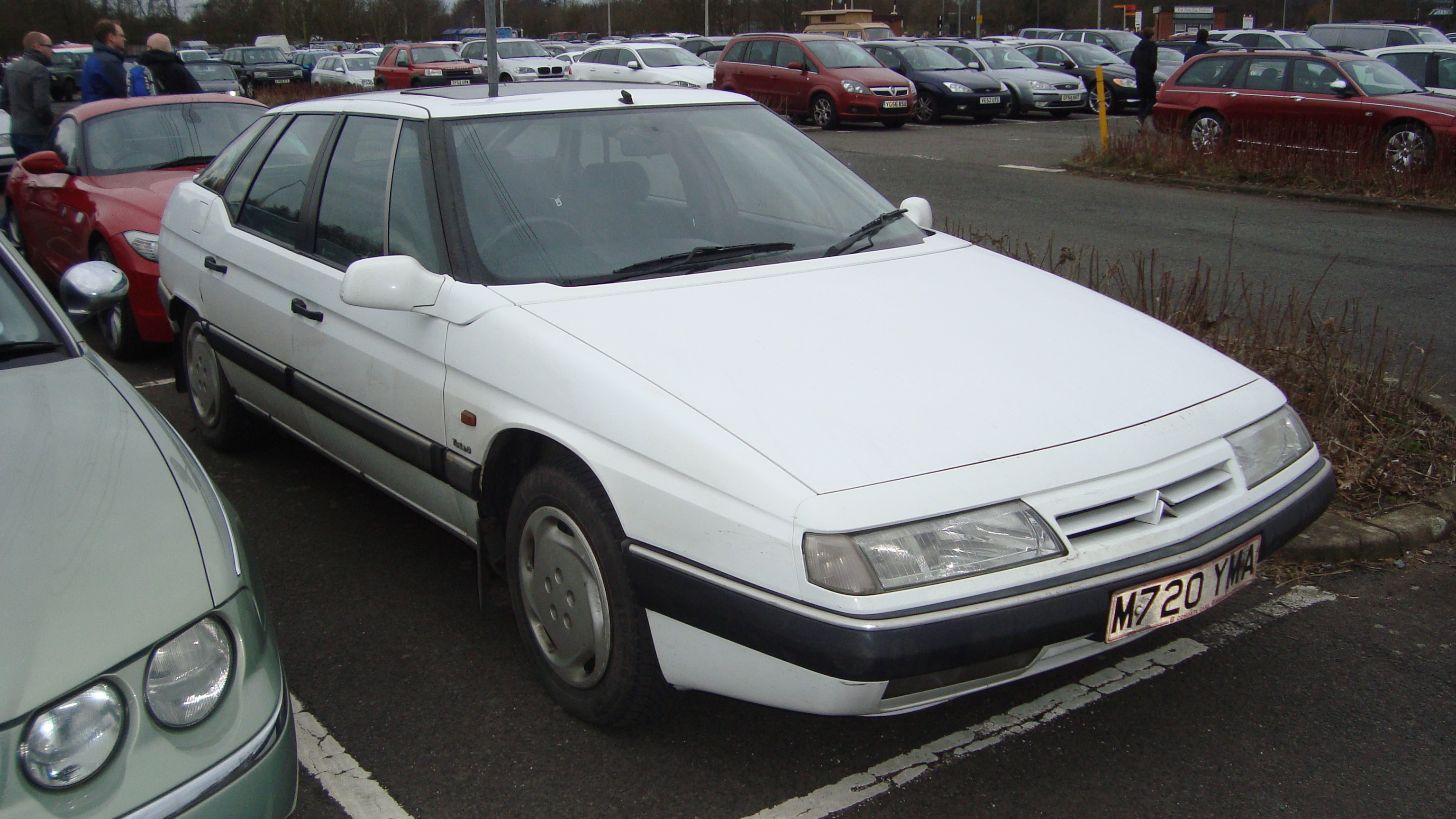 Really nice to see an XM. There was one local to me until last year when it changed keepers, sadly I haven't seen it since. Looking at this picture now I wish I'd got a picture of the 75 Tourer in the background